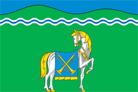 Flag of Kurganinsk, Krasnodar Territory, Russia